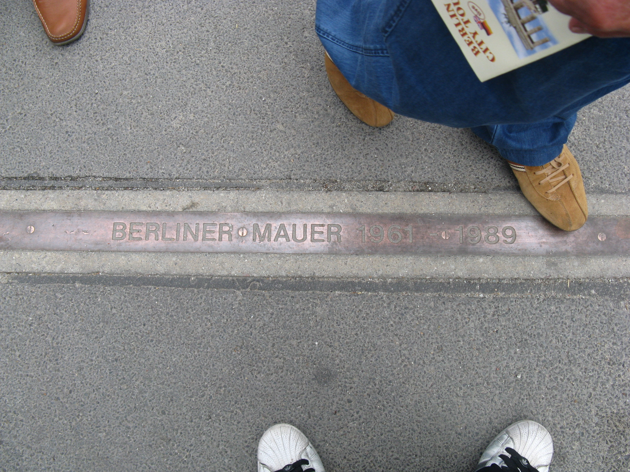 The line of Berlin Wall